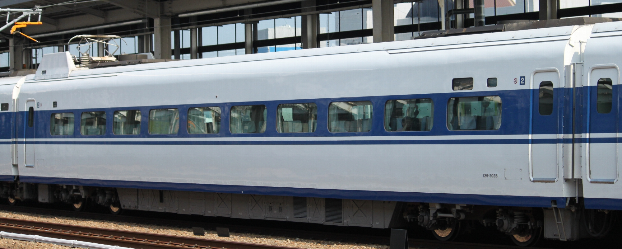 Shinkansen series 100(126-3025) in Himeji Station